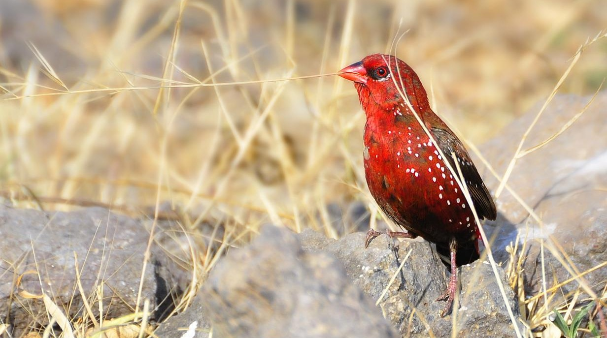 Red Avadavat (Amandava amandava) in Rajkot, Gujarat, India.